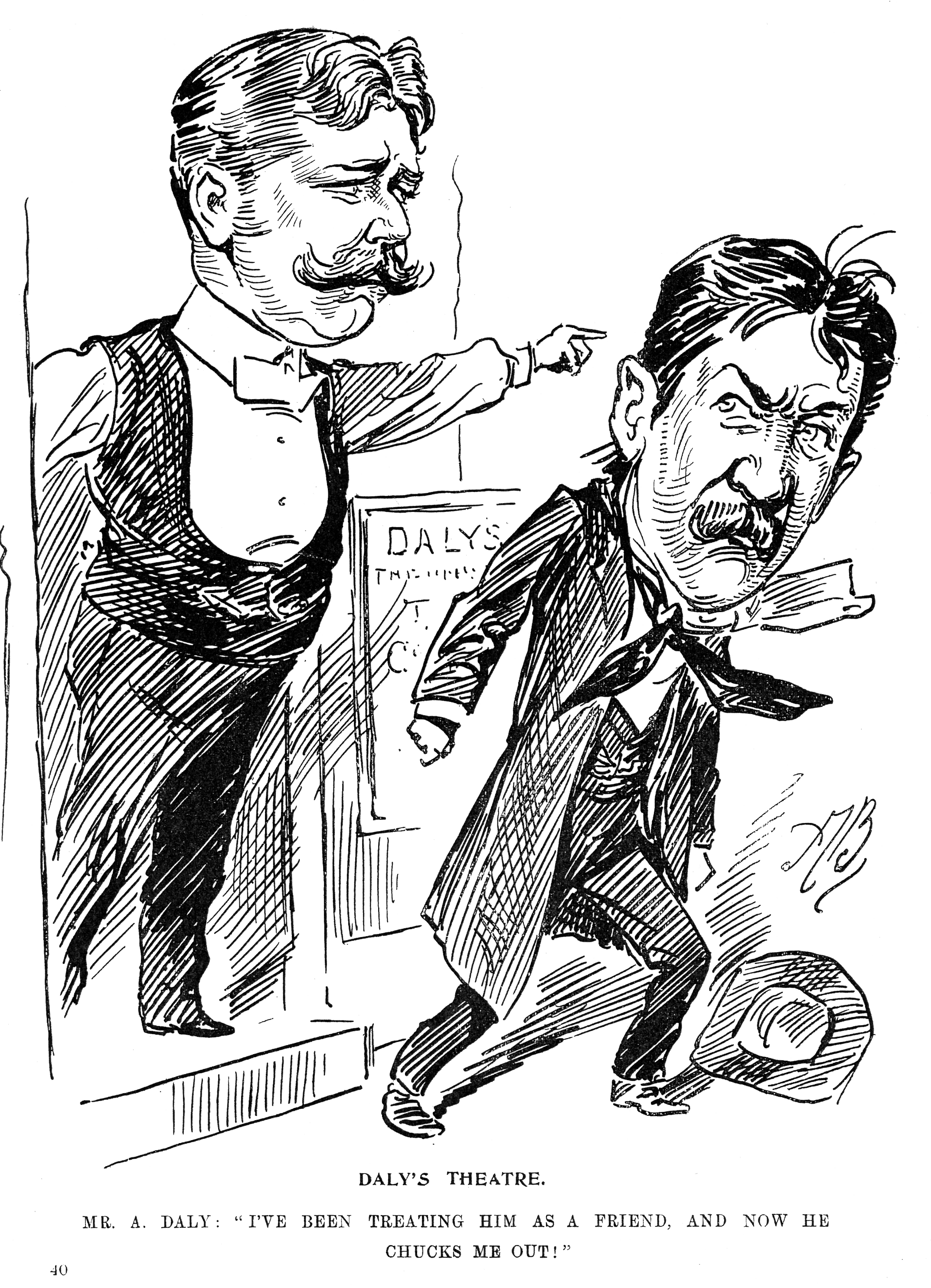 Augustin Daly is thrown out of Daly's Theatre by George Edwards